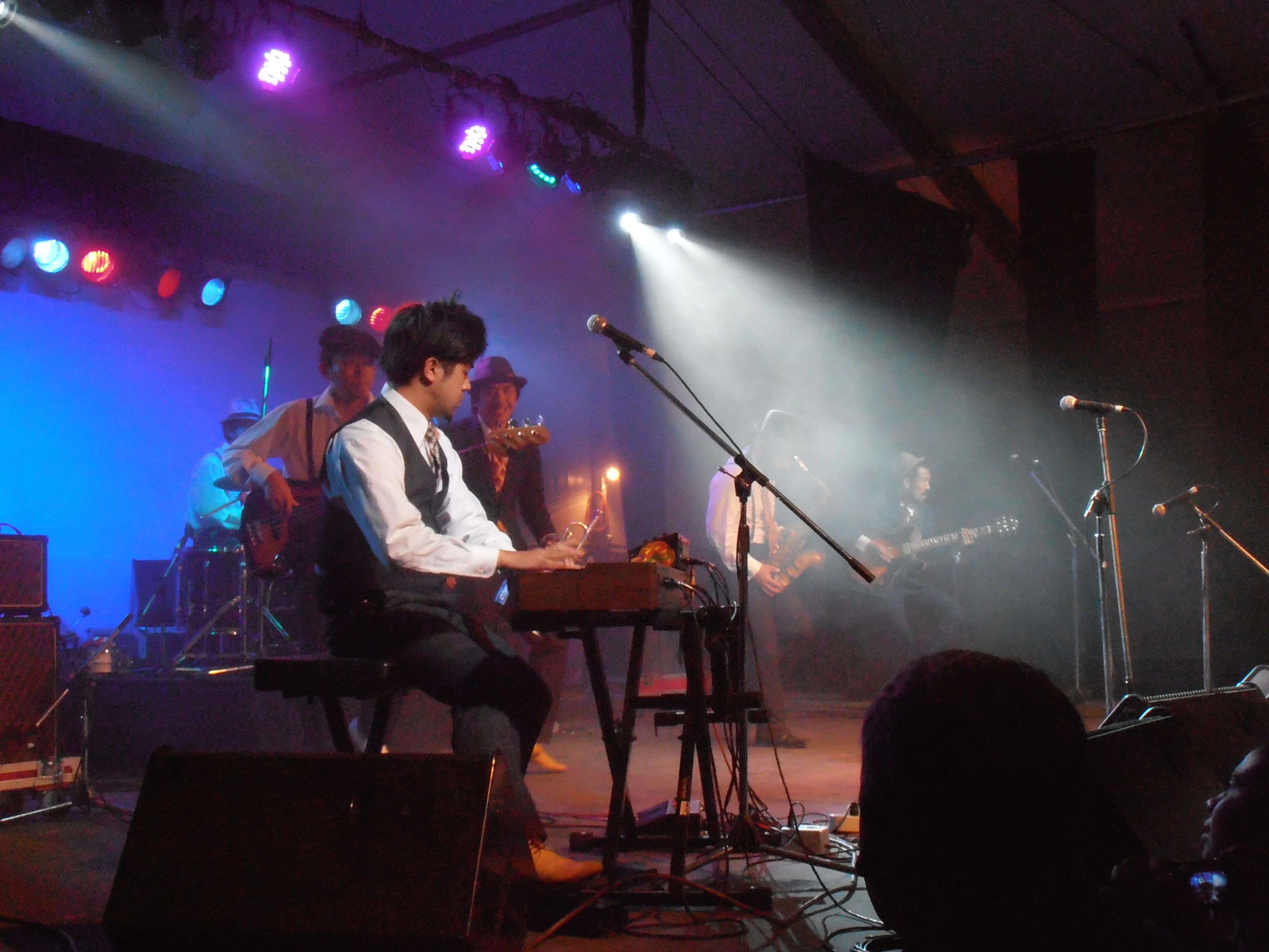 Mountain Mocha Kilimanjaro performing at Woodford Folk Festival 1st January, 2012